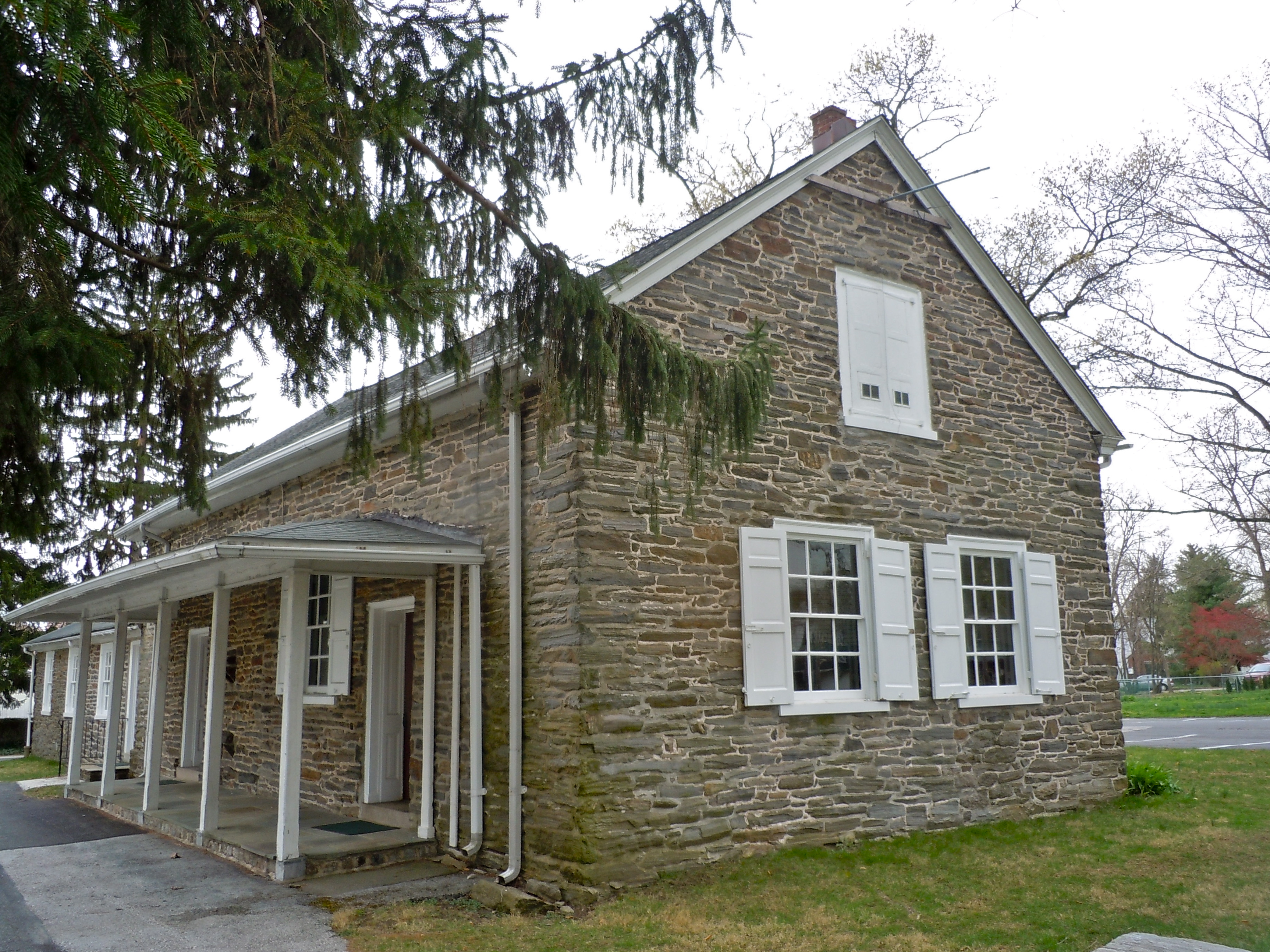 Old Haverford Friends' Meeting. PHMC state historical marker dedicated on Friday, October 24, 1975. At SR 1005 (E. Eagle Rd.) at St. Denis Ave., Havertown, Delaware County, Pennsylvania. 39.991°N 75.3048°W Historical themes: Religion, William Penn. Quaker meeting founded 1683, but earliest part of current building built 1700. William Penn visited in 1699.